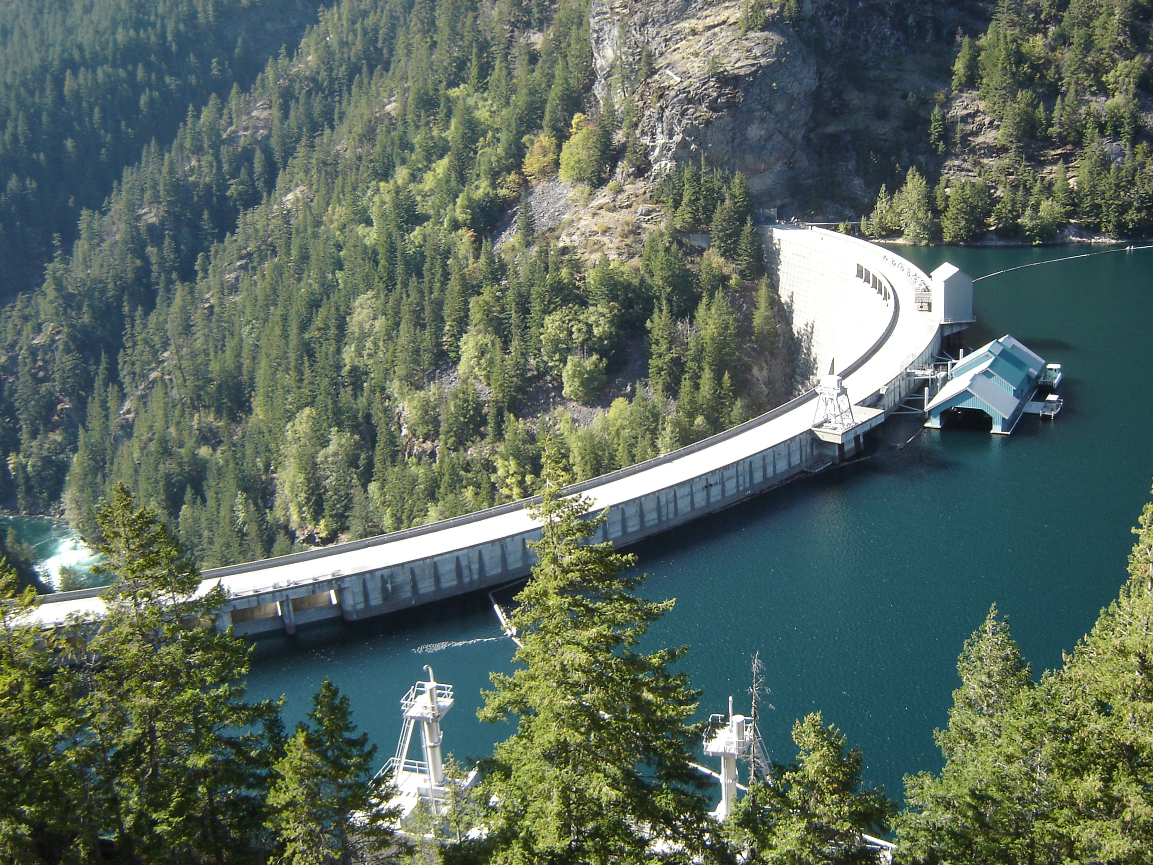 Ross Lake Dam, North Cascades National Park, Washington